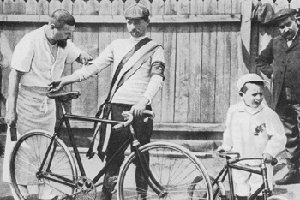 Maurice Garin (m)